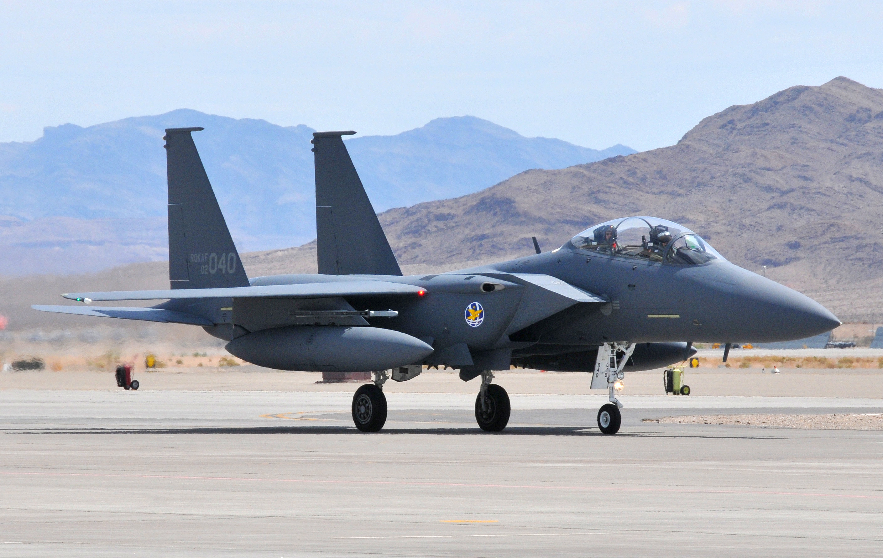 F-15K Slam Eagle from the Republic of Korea Air Force arrives at Nellis Air Force Base, Nev. on 5 August 2008 to participate in Red Flag 08-4.